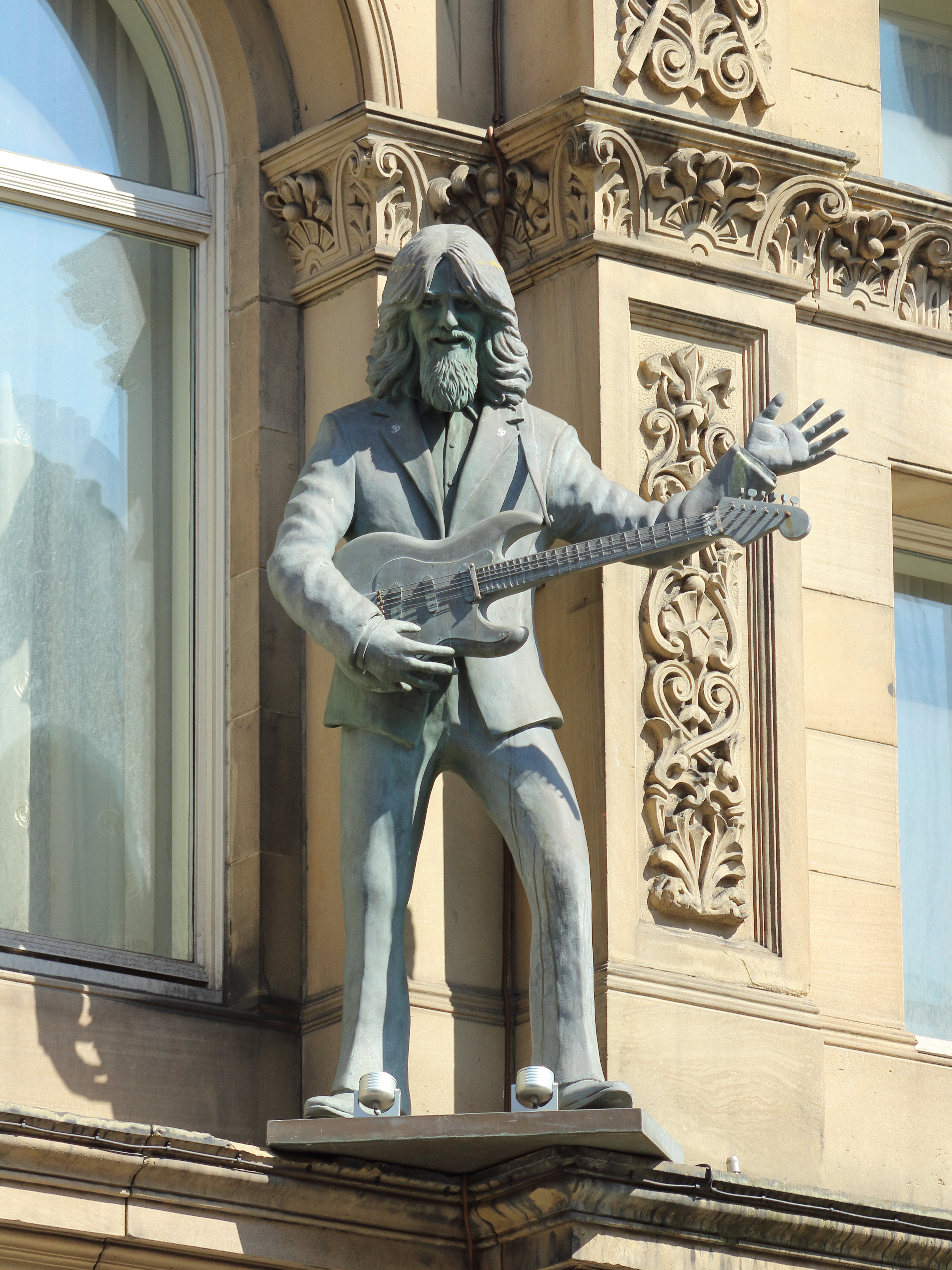 Statue of George Harrison on the front elevation of the Hard Days Night Hotel, North John Street, Liverpool